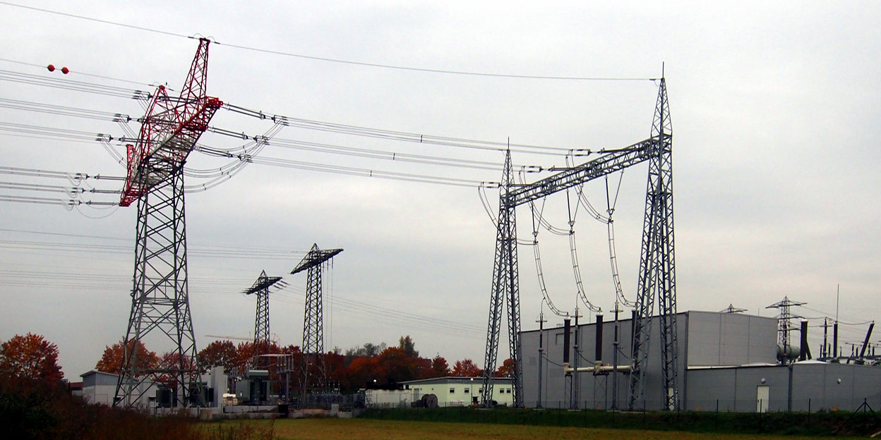 Tension tower (also called strain or dead-end pylon) and anchor portal (H-frame tower) of a 380 kV power line